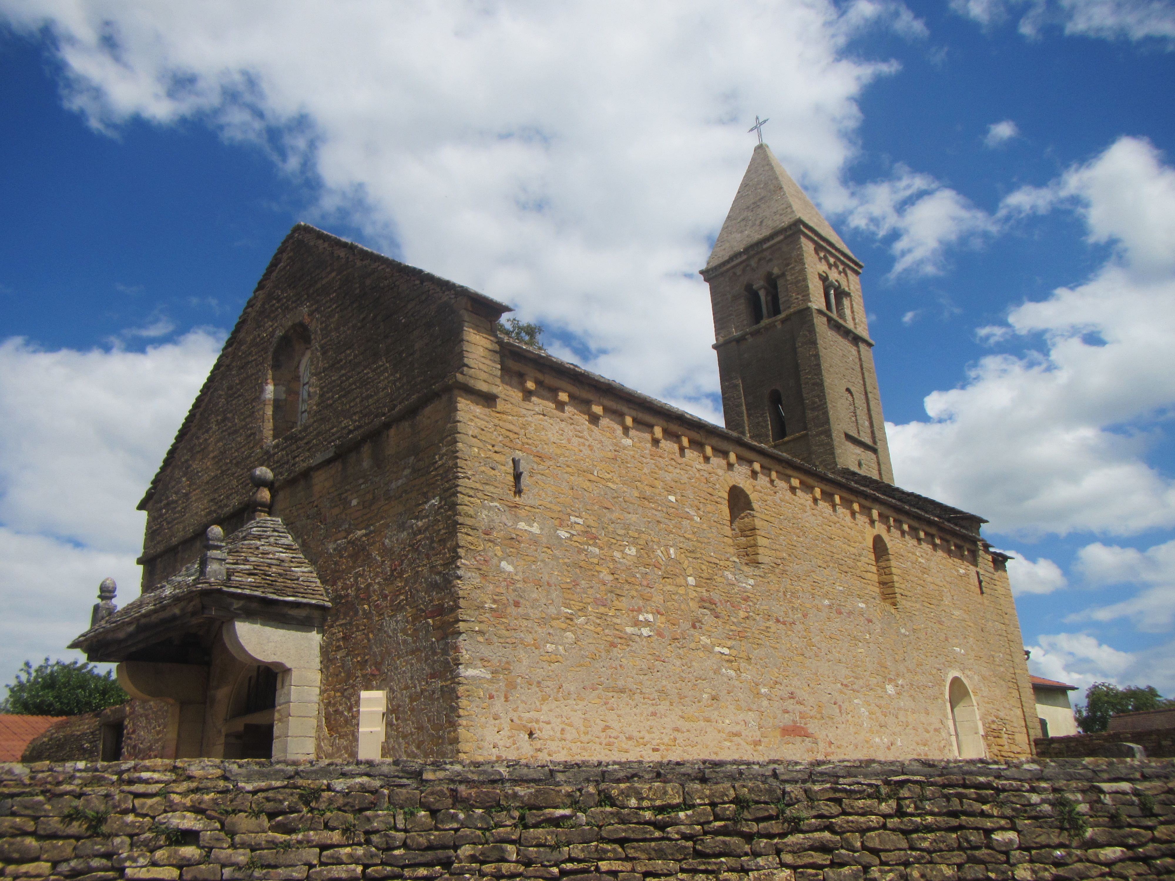 Taizé - church of saint Mary Magdalene - side view